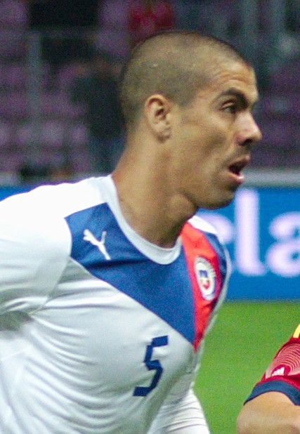 Spain - Chile - 10-09-2013 - Geneva - Francisco Silva and Andres Iniesta